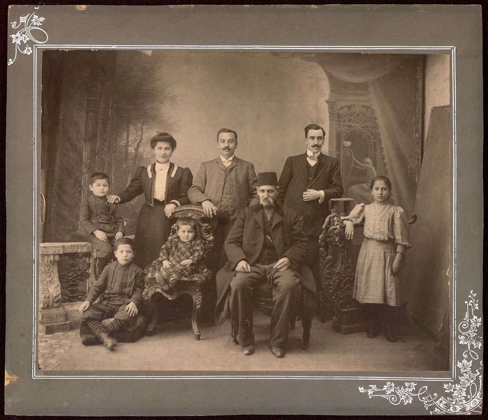 Mihail Kyulyumov (sitting) with his sons Pancho and Petar and Petar's family in Thessaloniki, 1905, Bulgarian National Library